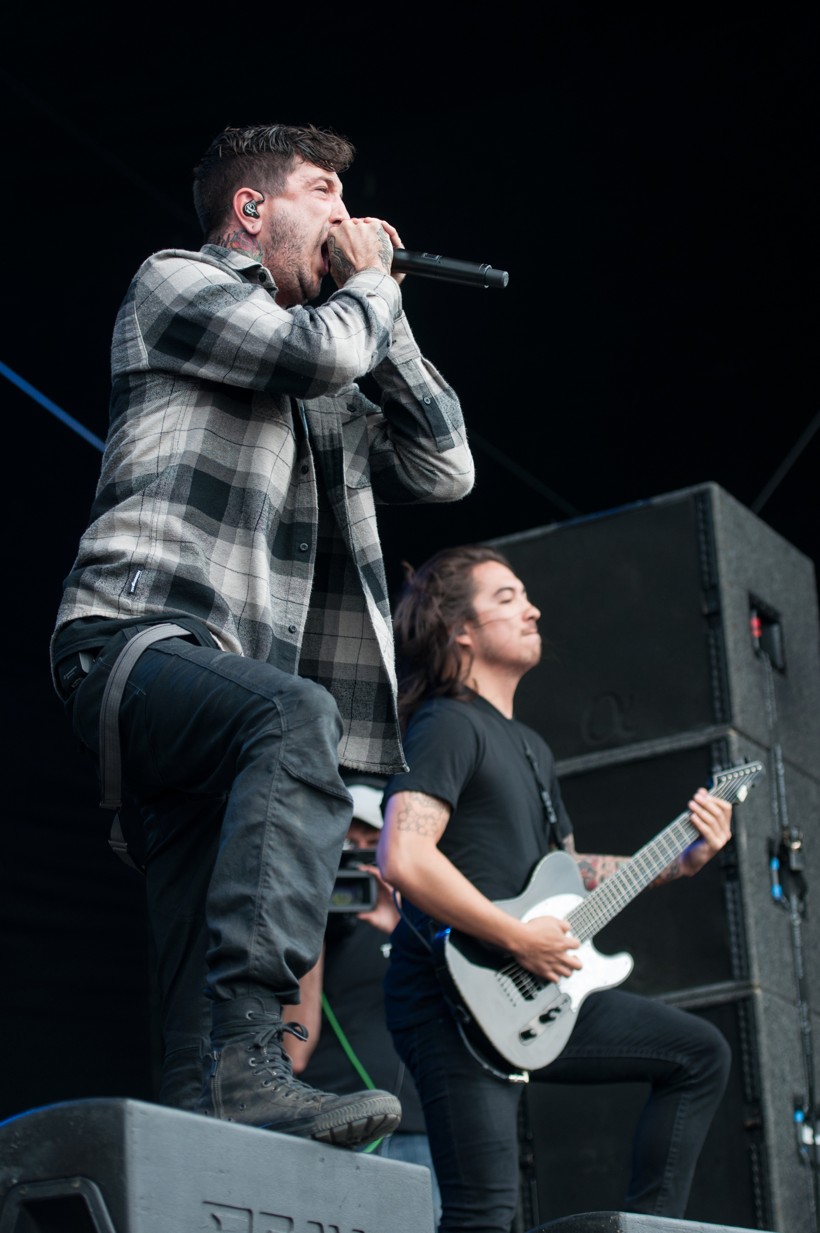 Of Mice & Men at Vainstream Rockfest 2014